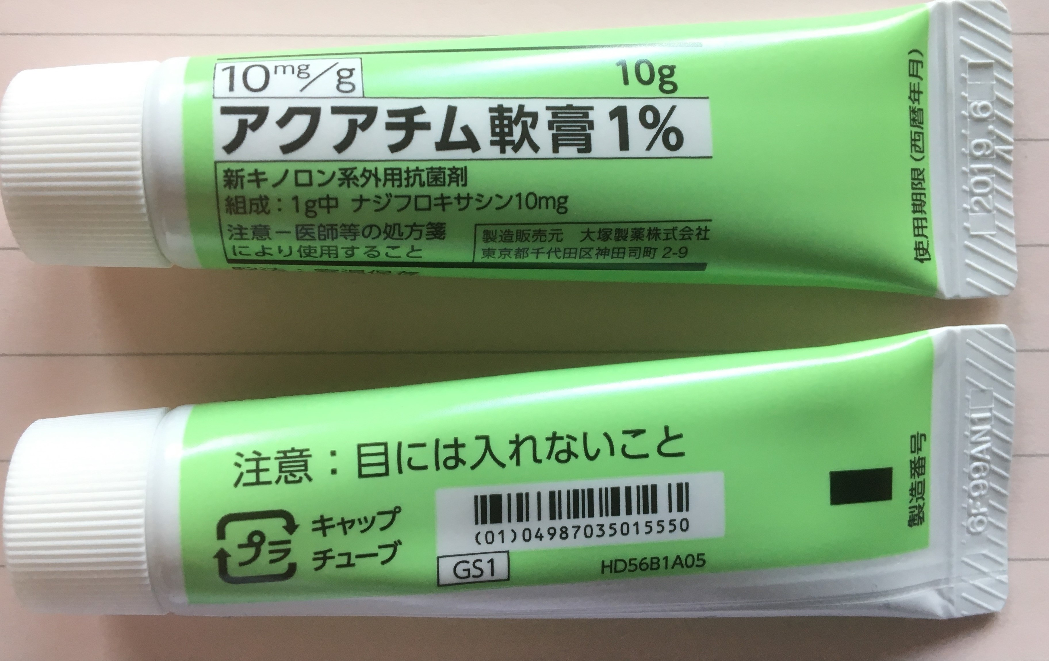 Nadifloxacin